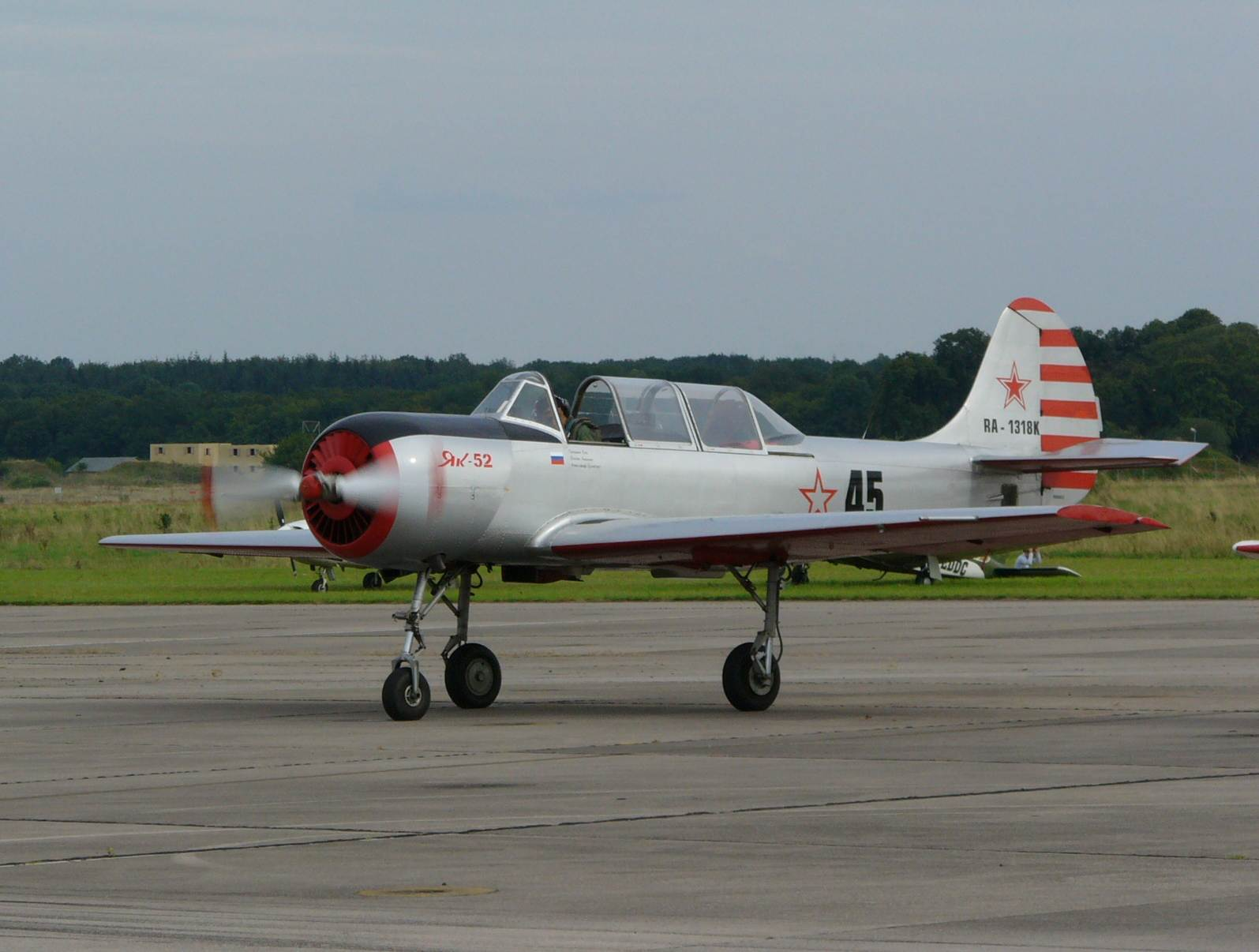 Yak 52, Russian trainer aircraft